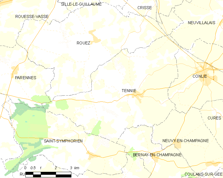 Map of French municipality